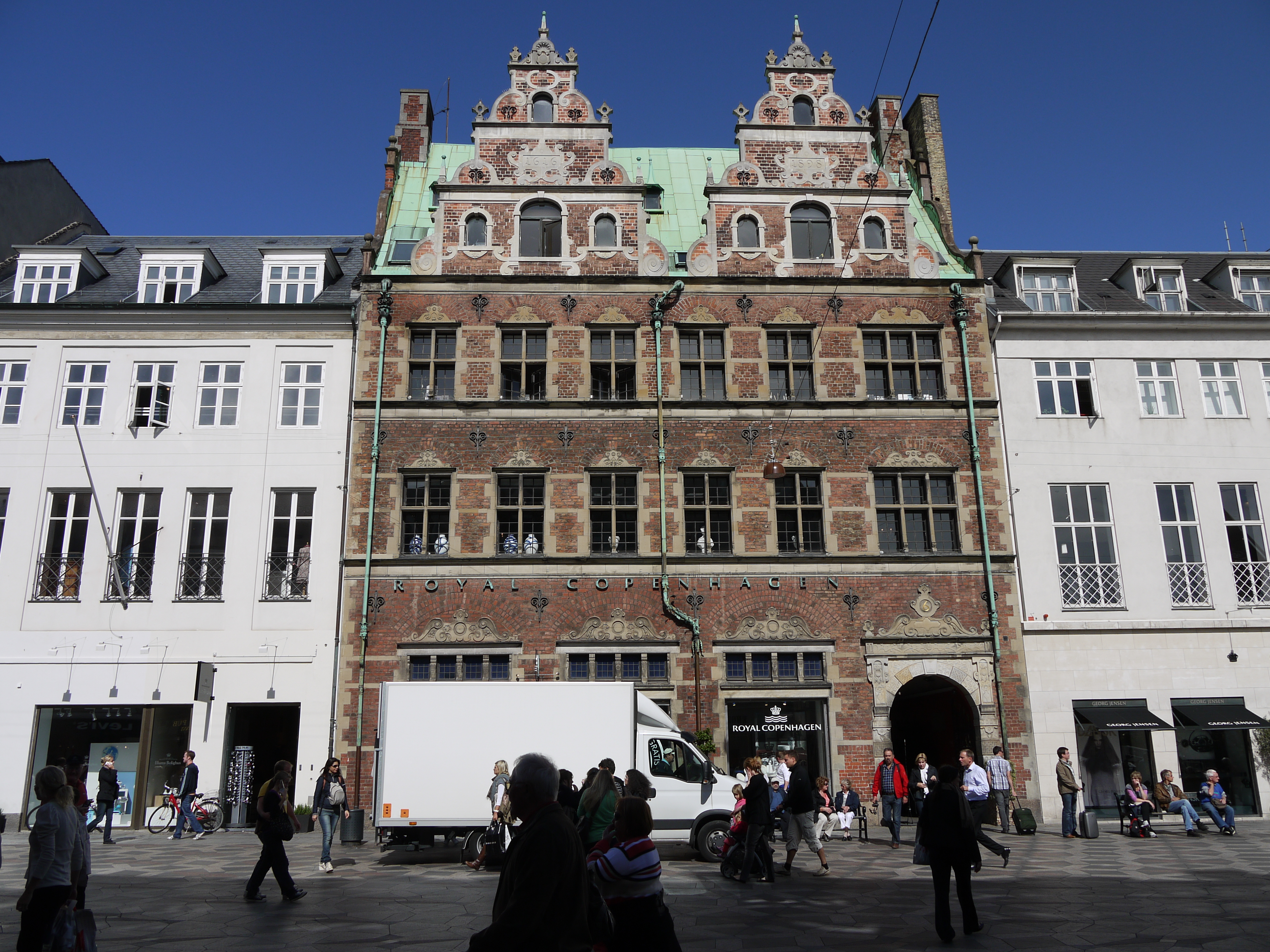 6 Amagertorv in Copenhagen, Denmark. Built in 1616, the property has previously served as a mayor's house but now houses a Royal Copenhagen flagship store.